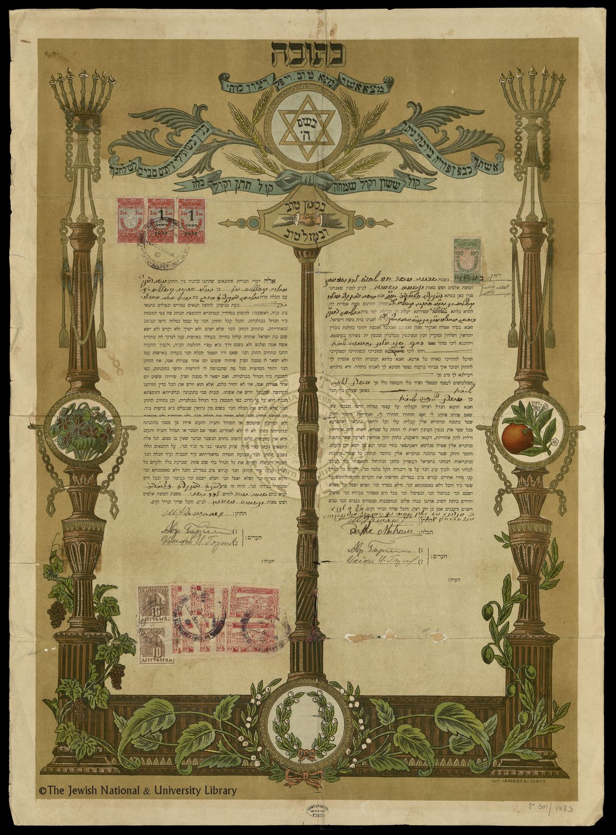 Ketubah from The Ketubbot Collection of the National Library of Israel